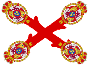 Flag cross burgundy lessercoat